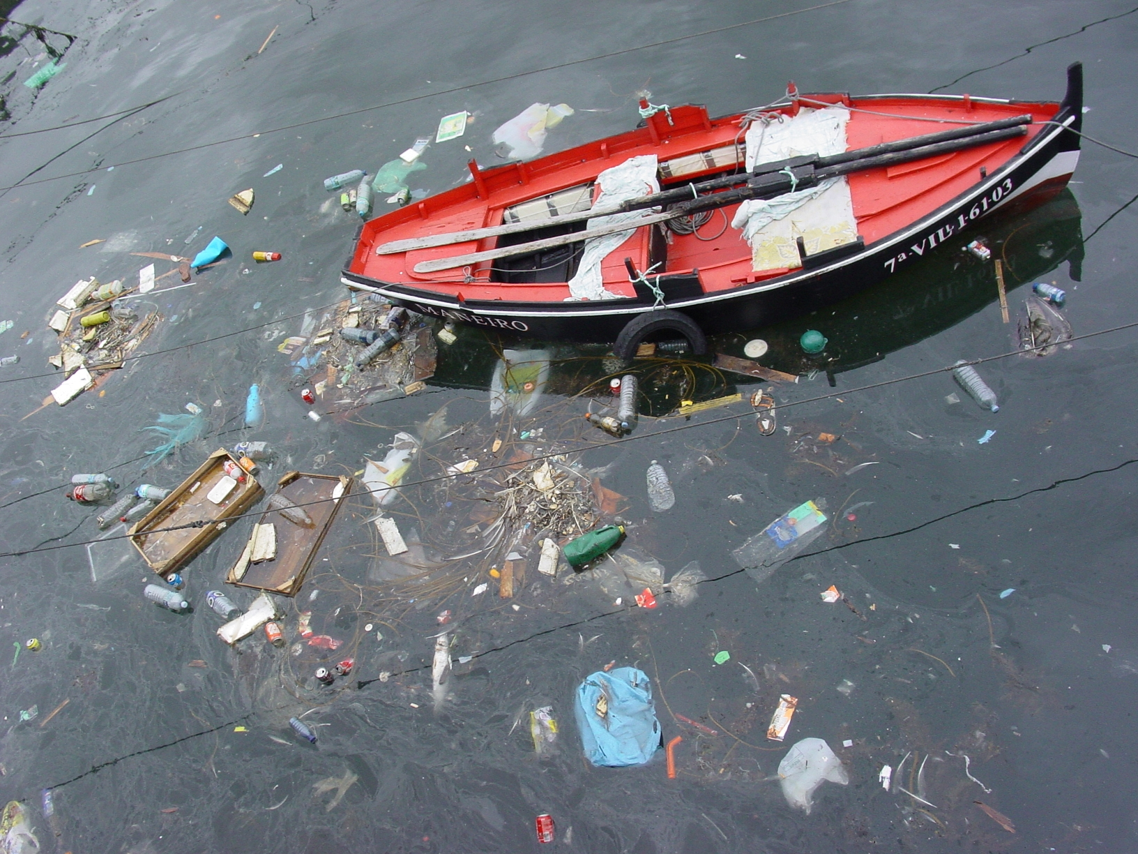 Pollution, Ribeira, Galicia